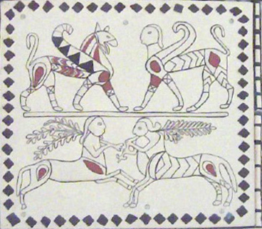 Detail from a reconstruction of a Phrygian building; griffin, sfinx and two centaurs; Pararli,Turkey; 7th - 6th c. BC; Museum of Anatolian Civilizations, Ankara, Turkey